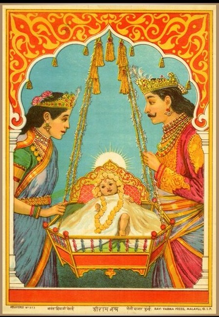 From Baroda Art Museum